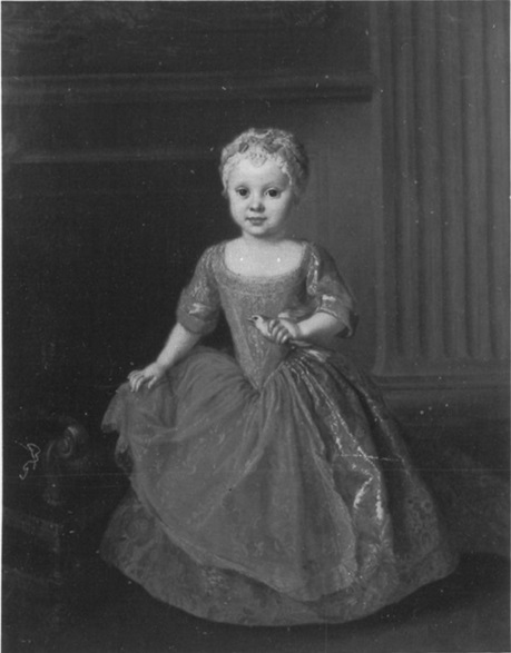 Portrait of Maria Anna Sophia of Saxony (1728-1797)